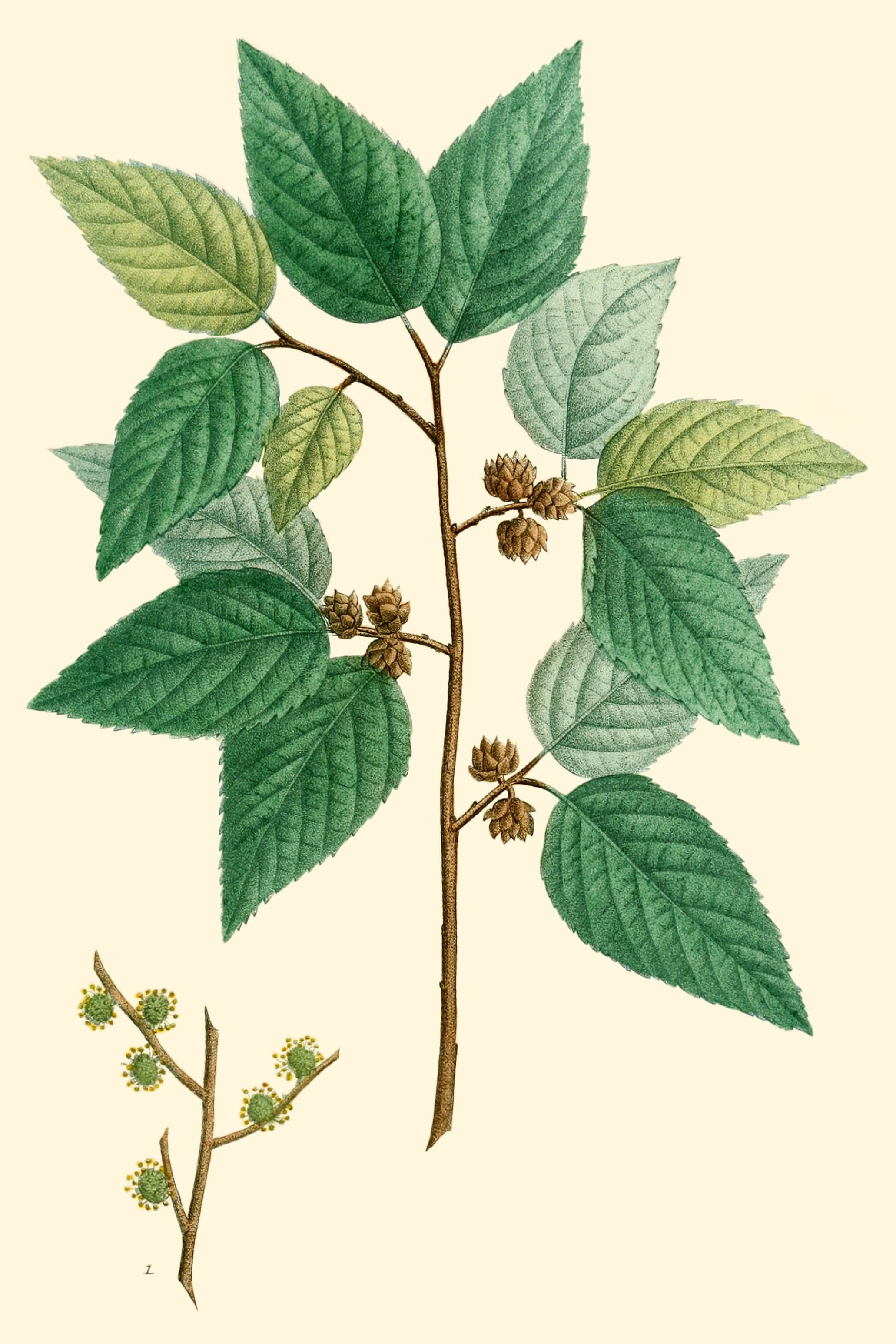 Plate 130 from The North American Sylva: Planera aquatica - water elm. (Original caption: Planer Tree. Planera Ulmifolia.)